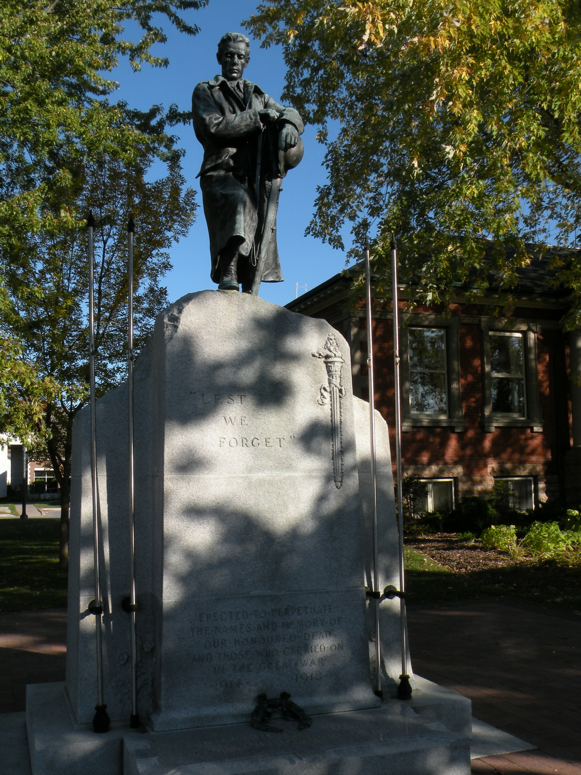 Erected to perpetuate the names and memory of our honoured dead and those who carried on in the great war. 1914-1918. Our heroic dead by land in air on sea. War memorial - Lindsay, Ontario, Canada. "Tommy in his Greatcoat" by Emanuel Hahn